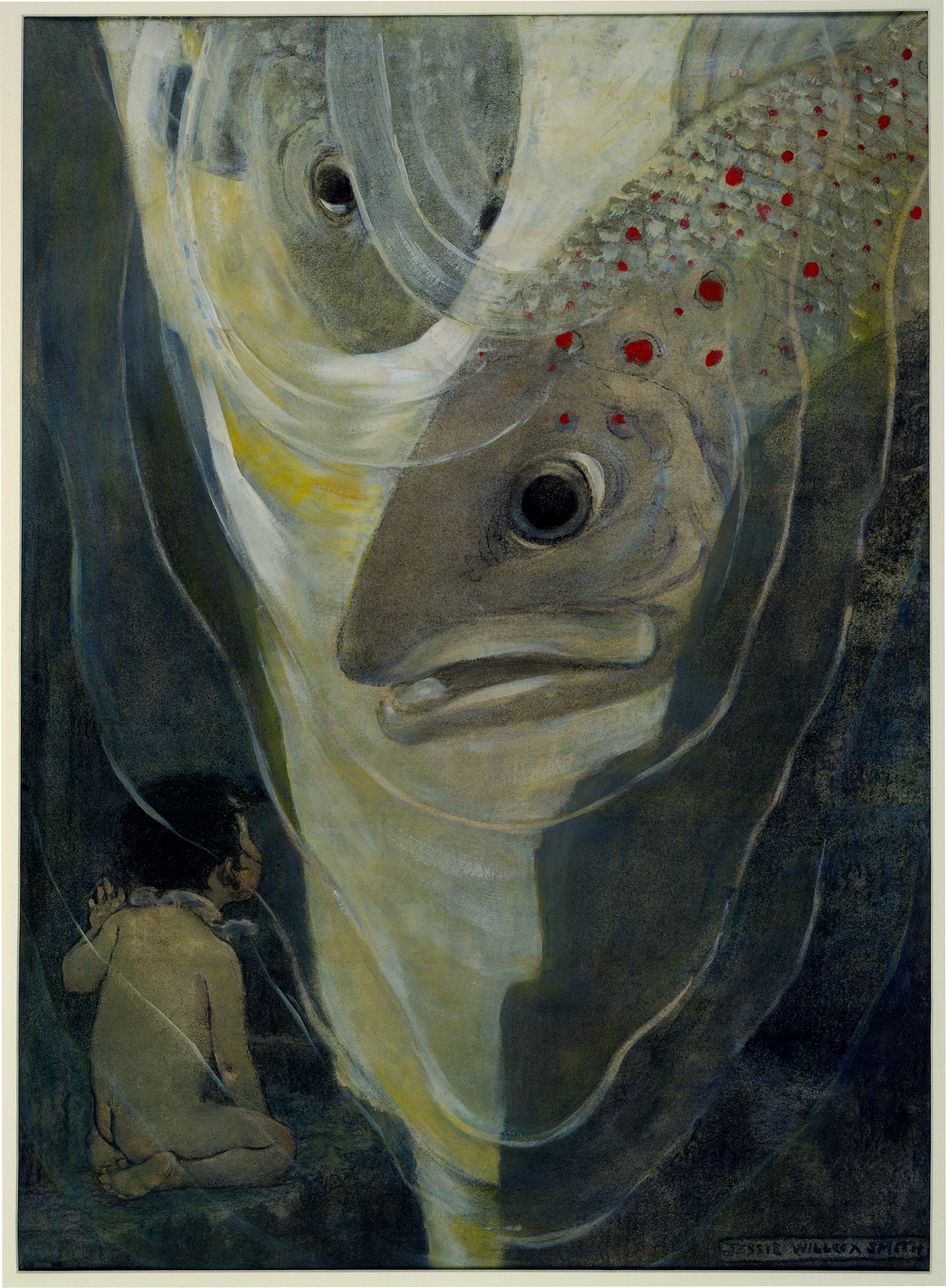 "Oh, don't hurt me! cried Tom. I only want to look at you; you are so handsome" A charcoal, watercolor, and oil painting by Jessie Willcox Smith. Published in The Water Babies by Charles Kingsley. New York: Dodd, Mead & Co., 1916, p. 140.